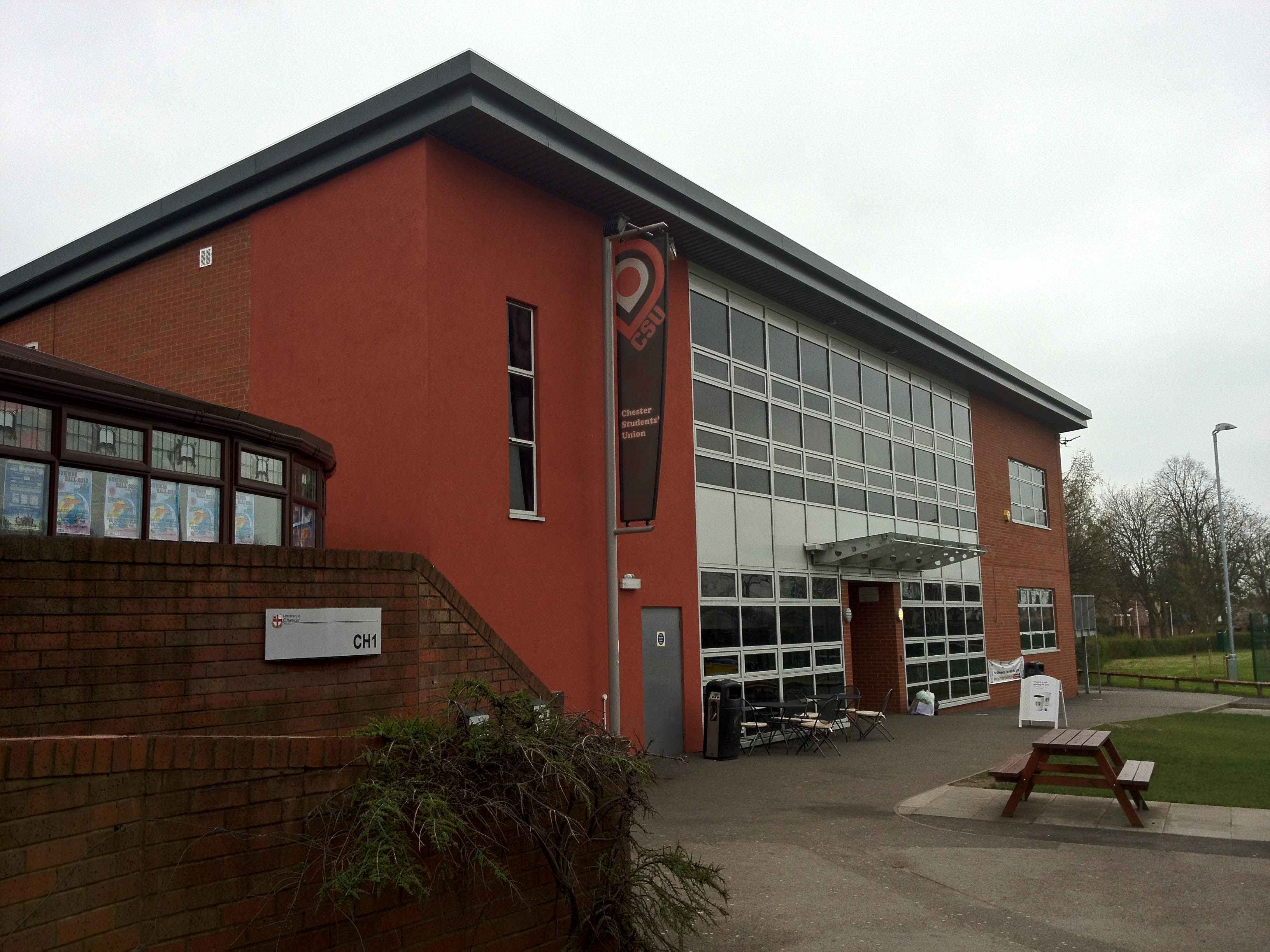 University of Chester.